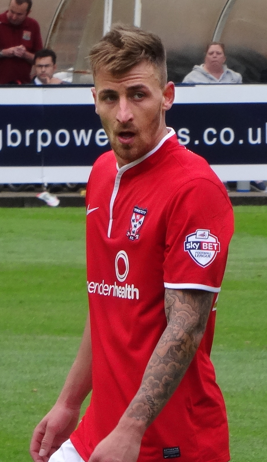 Jake Hyde playing for York City against Northampton Town at Bootham Crescent, York on 16 August 2014